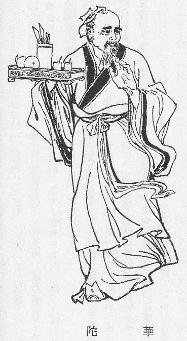 Portrait of the physician Hua Tuo from a Qing Dynasty edition of The Romance of the Three Kingdoms.